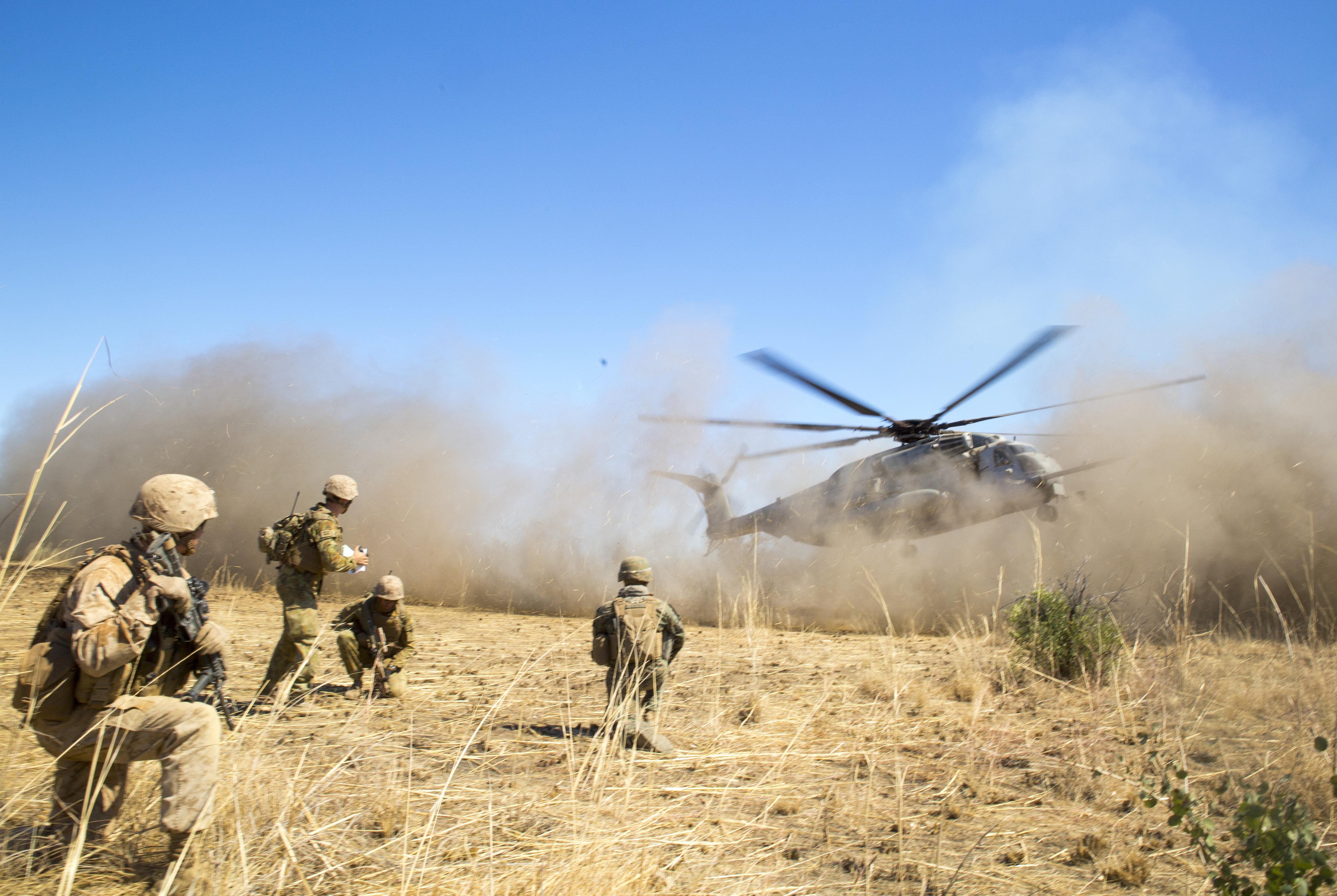 Royal Australian service members and U.S. Marines work together as a CH-53E Super Stallion prepares to land August 22 at Bradshaw Field Training Area, Northern Territory, Australia. The culminating event of Koolendong 14 will entail fire and maneuver exercises executed bilaterally with members of the Australian Army’s 1st Brigade and U.S. Marine’s 1st Battalion 5th Marine Regiment involving, infantry, tanks, artillery and engineers. The Marines are currently deployed in part of the Marine Rotational Force Darwin. The rotational deployment of U.S. Marines affords an unprecedented combined training opportunity with their Australian allies, and improves interoperability between the two forces. (Marine Corps Photo by Lance Cpl. Joey S. Holeman, Jr./ Released)